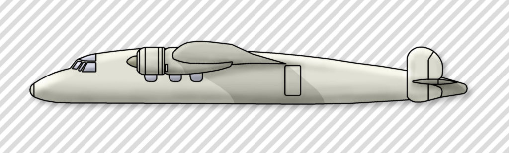 Silhouette diagram of a Blohm und Voss BV 144